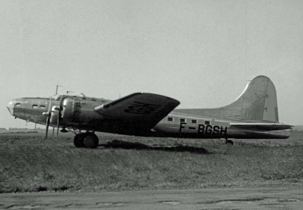 Boeing B-17G survey aircraft of the Institut Geographique National at Creil airfield near Paris in 1957